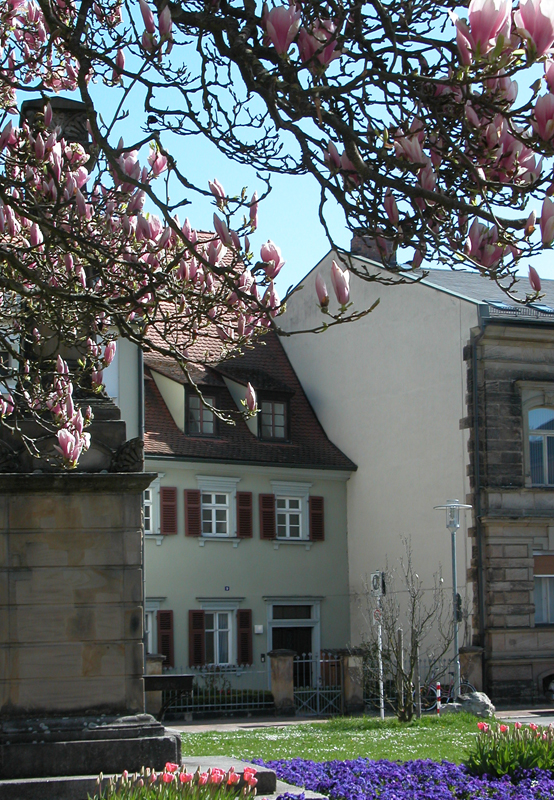 Flowering Magnolia in front of Schillerplatz 9, Bamberg, Germany.